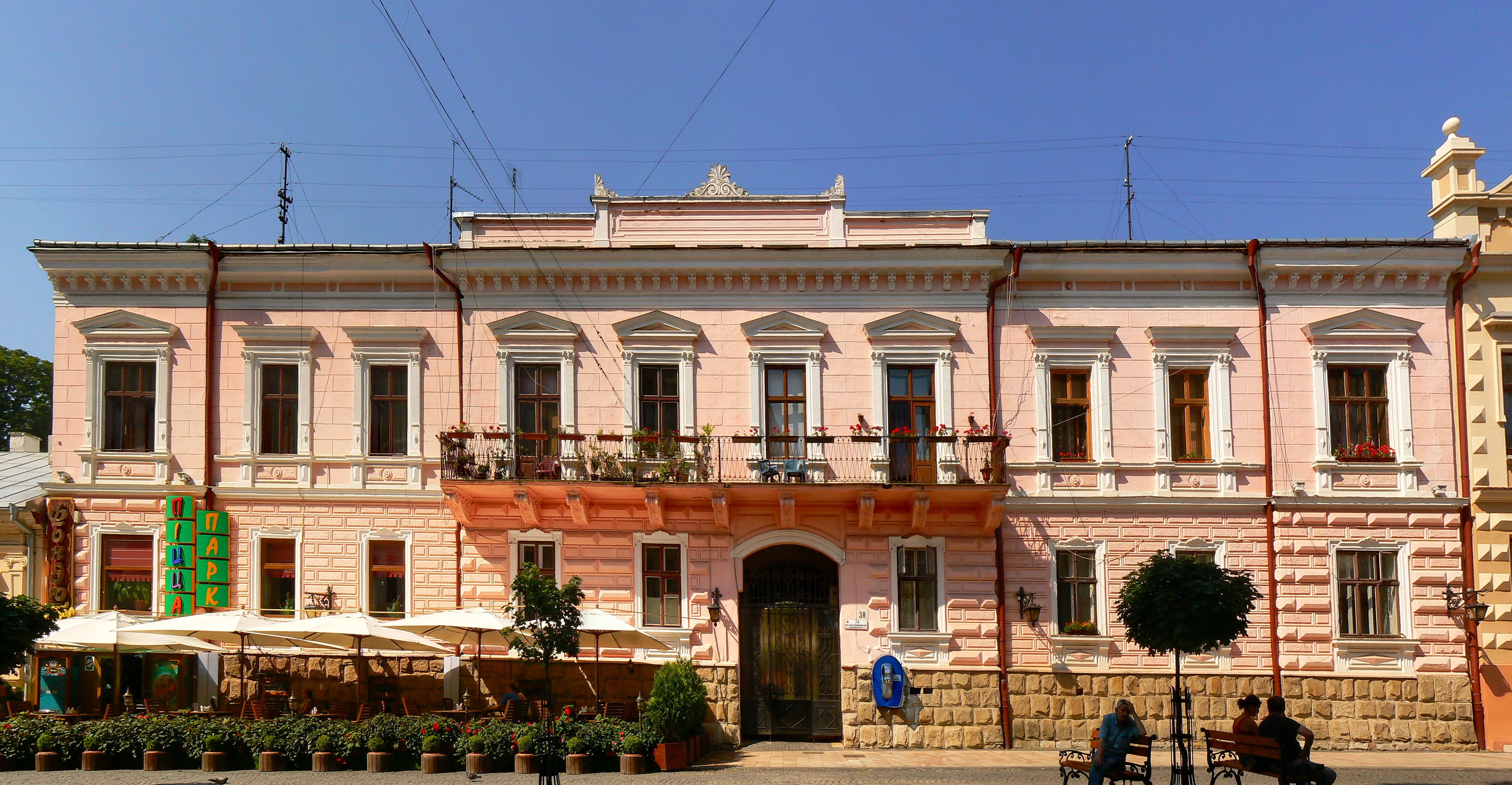 Кобилянської, 38